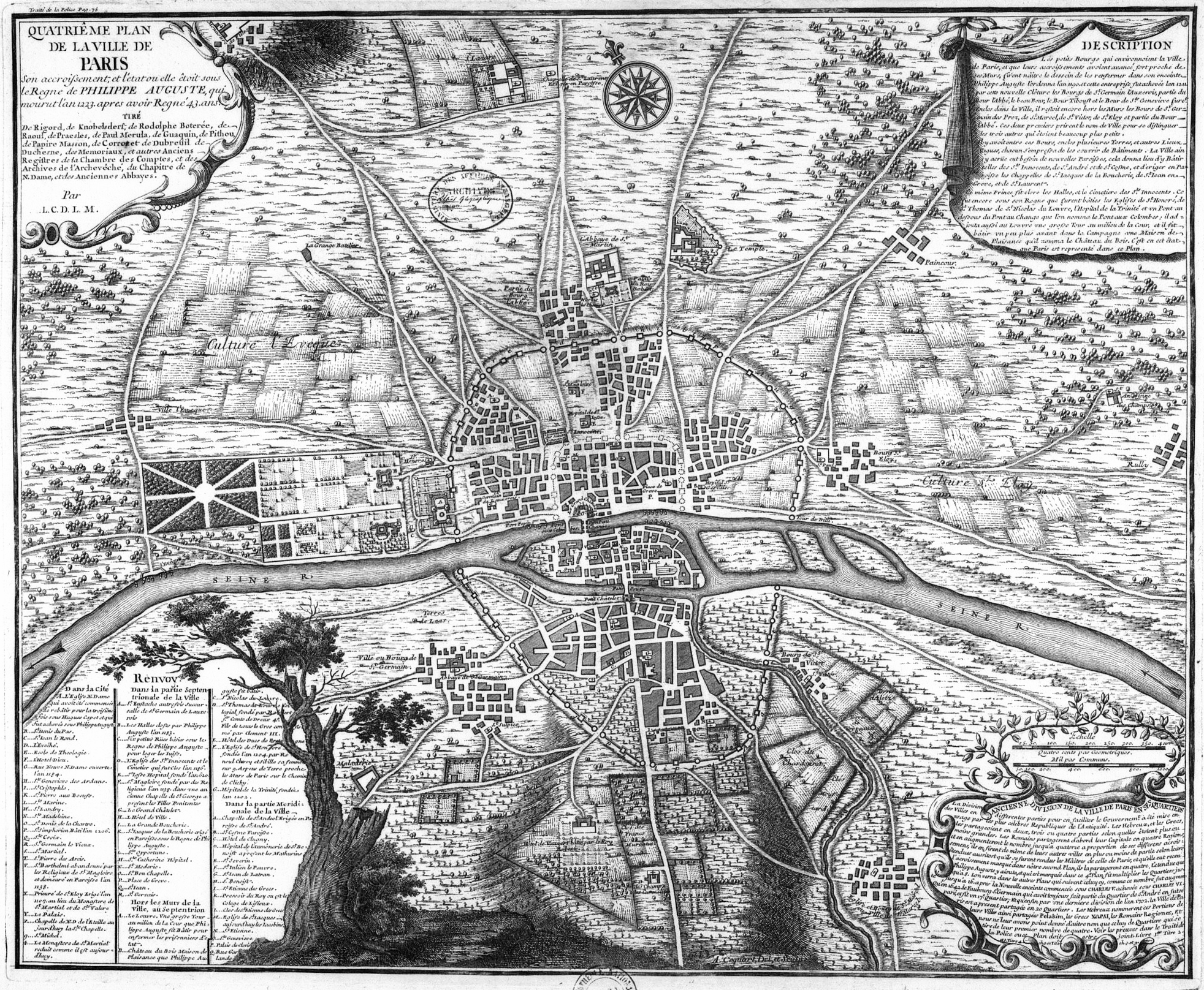 Plan of Paris in 1223, the fourth of eight chronological maps of Paris from Traité de la police